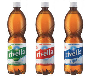 Current bottles pack shot